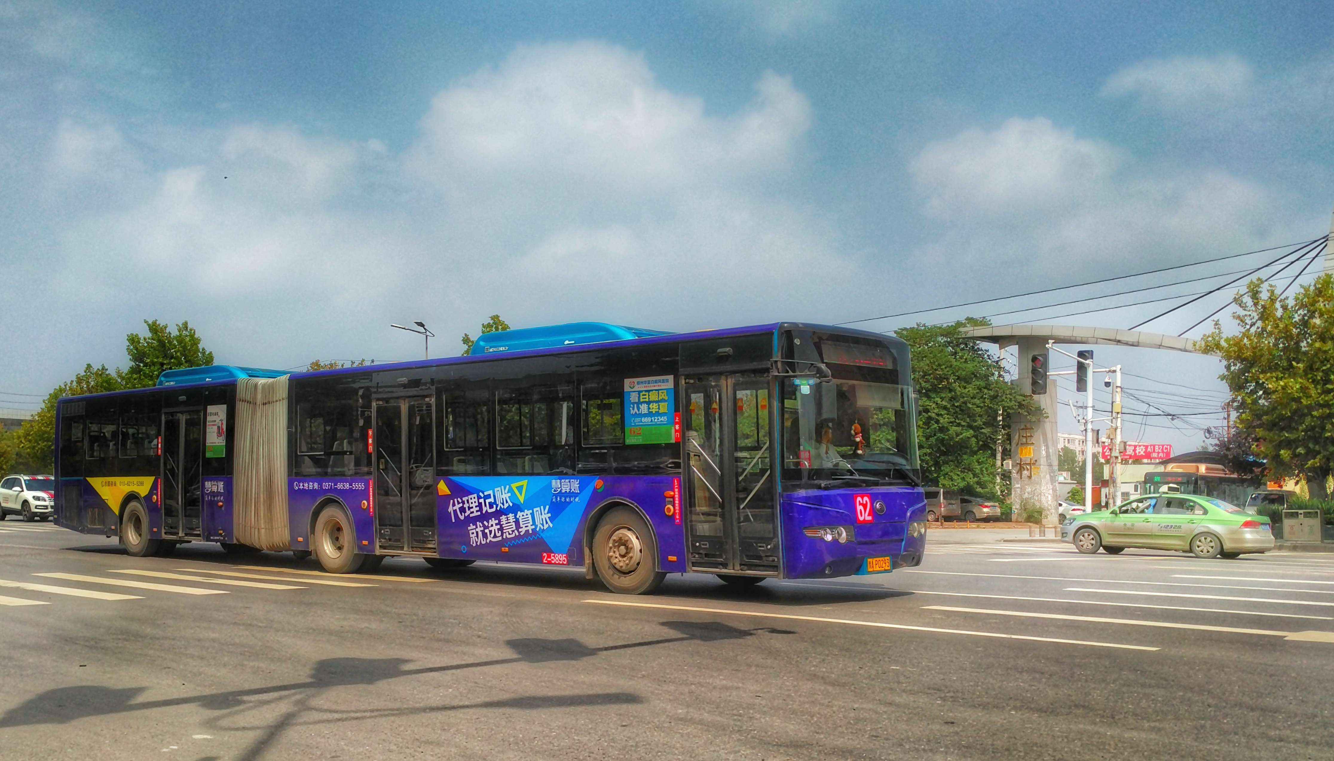 A Yutong ZK6180HGC running on Zhengzhou Bus Route 62, which was originally in blue painting. There are also used to be some buses of the same model that was in red painting and had 4 doors (therefore nicknamed as "Hongsimen"/"红四门"), but it was a pity that those fellows had all been retired at the end of 2015 and gone to another world several months before I took this picture.